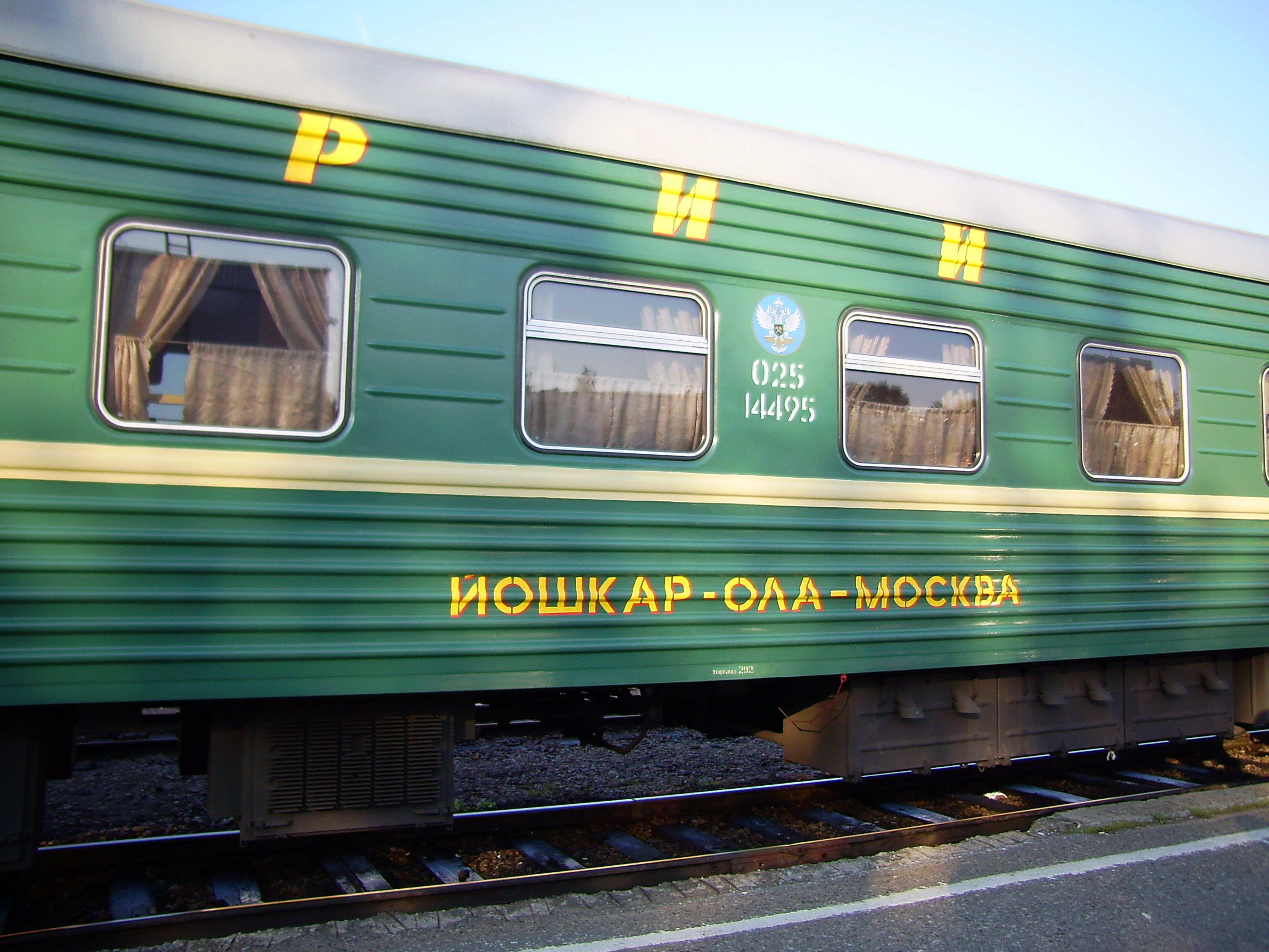 The car of a firm train "Mary El" (station Yoshkar-Ola)